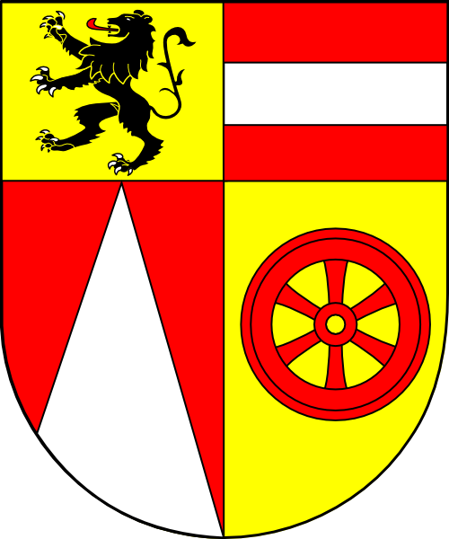 Coat of arms (shield only) of Karl Berg, archbishop of Salzburg, Austria (1972 - 1988).